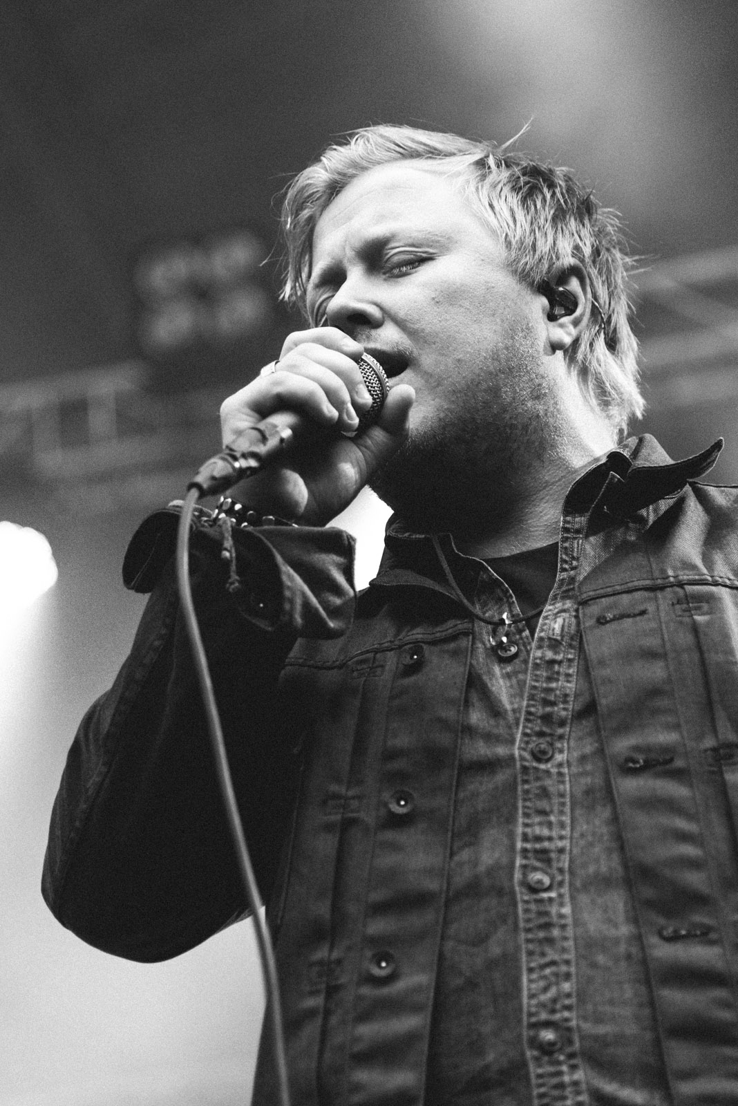 Kurt Nilsen live at Ravnefest 2013